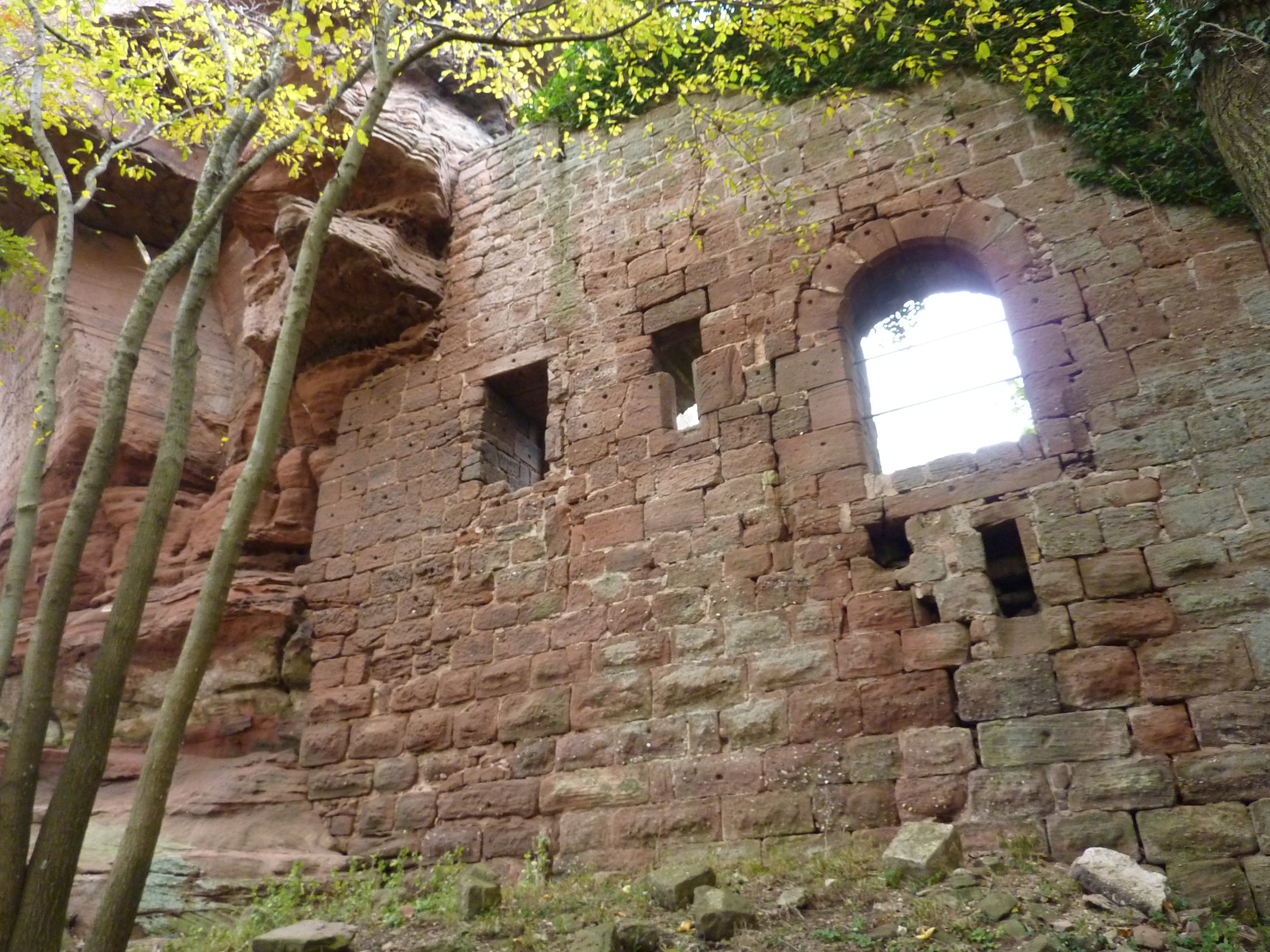 Courtyard South wall of the castle of Grand Ochsenstein, Bas-Rhin, France.